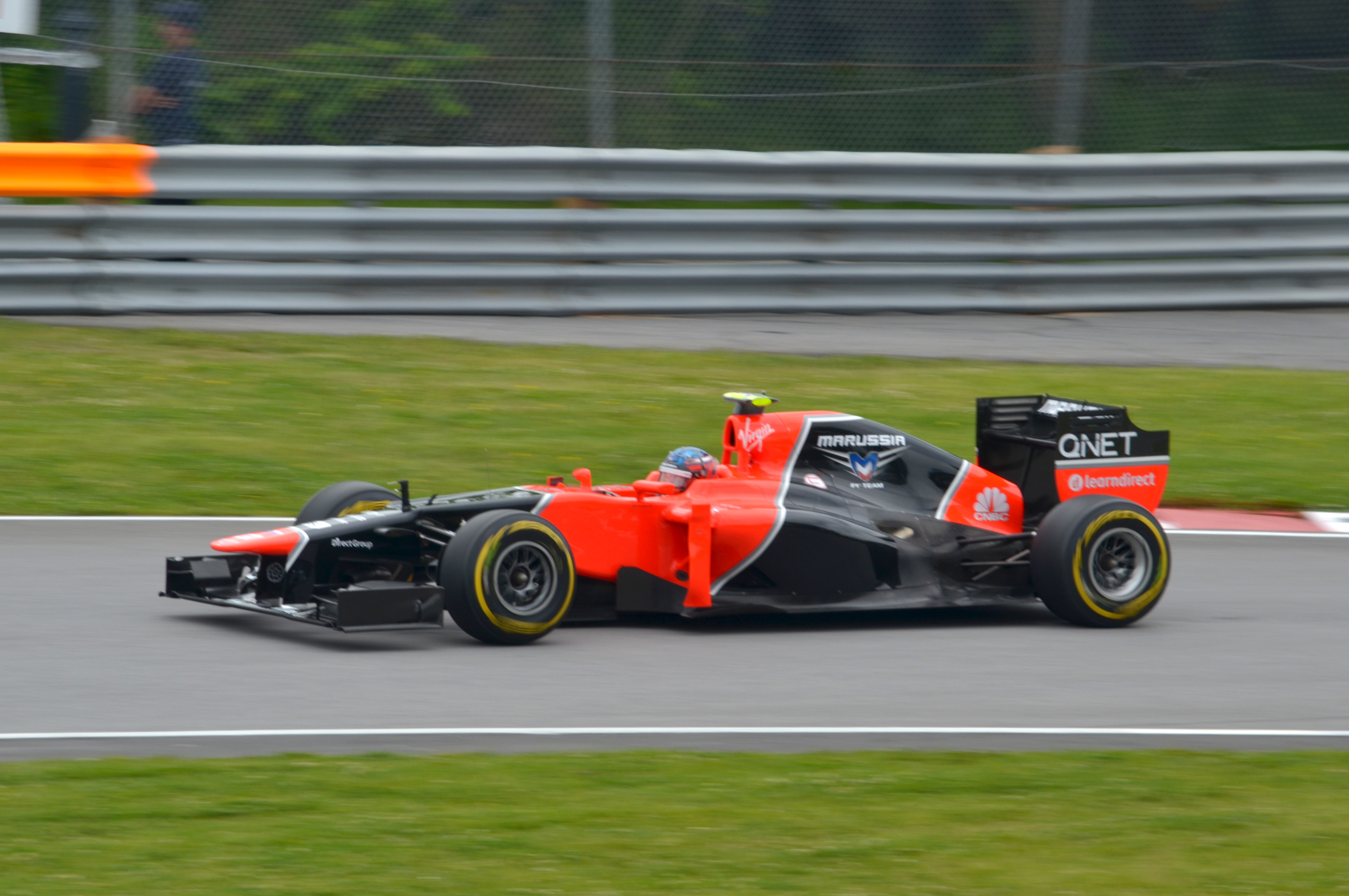 Charles Pic in the Marussia - Cosworth MR01 at turn 8/9 of Circuit Gilles Villeneuve during first practice for the 2012 Canadian Grand Prix.